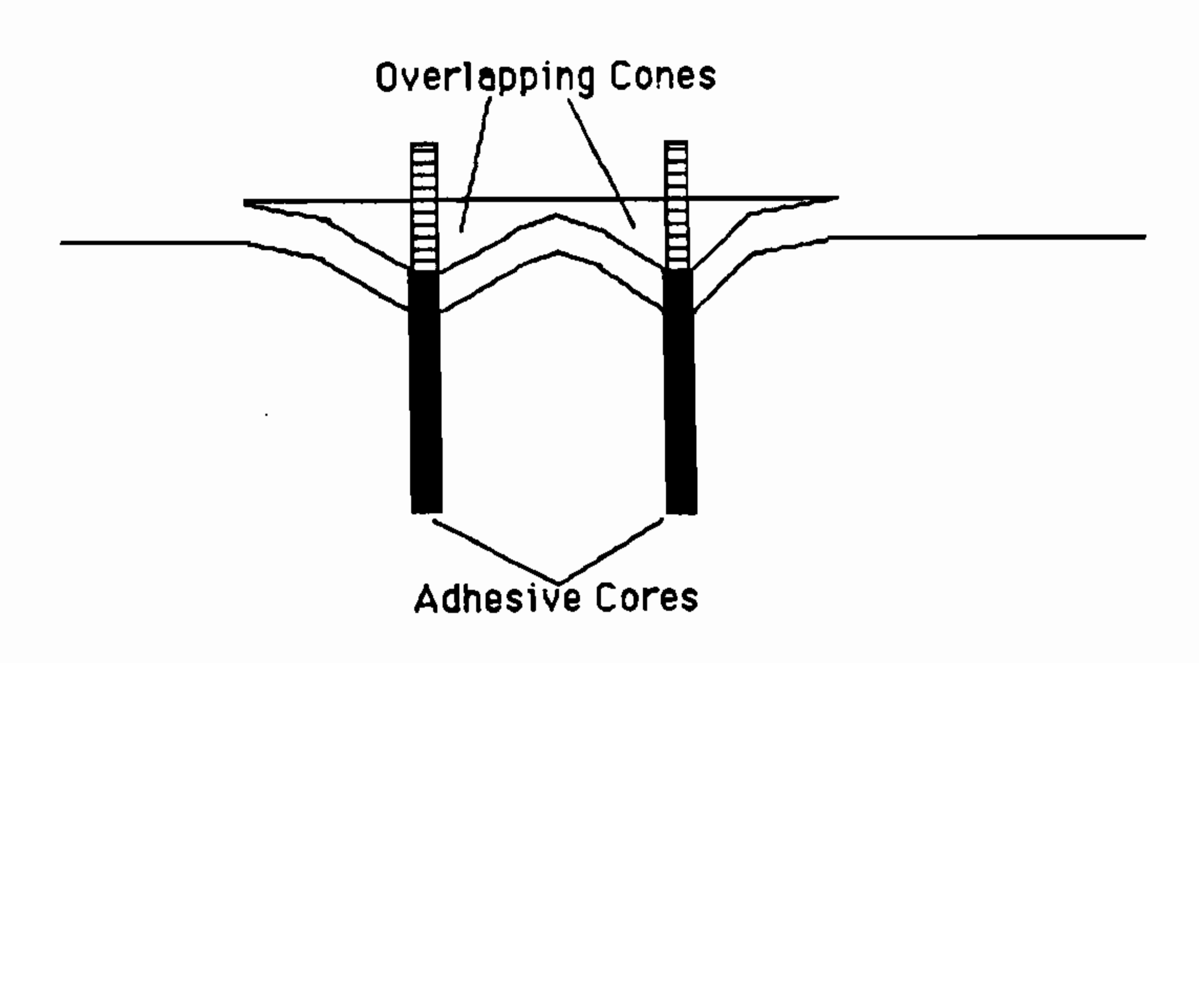 Group of anchors forming concrete cones